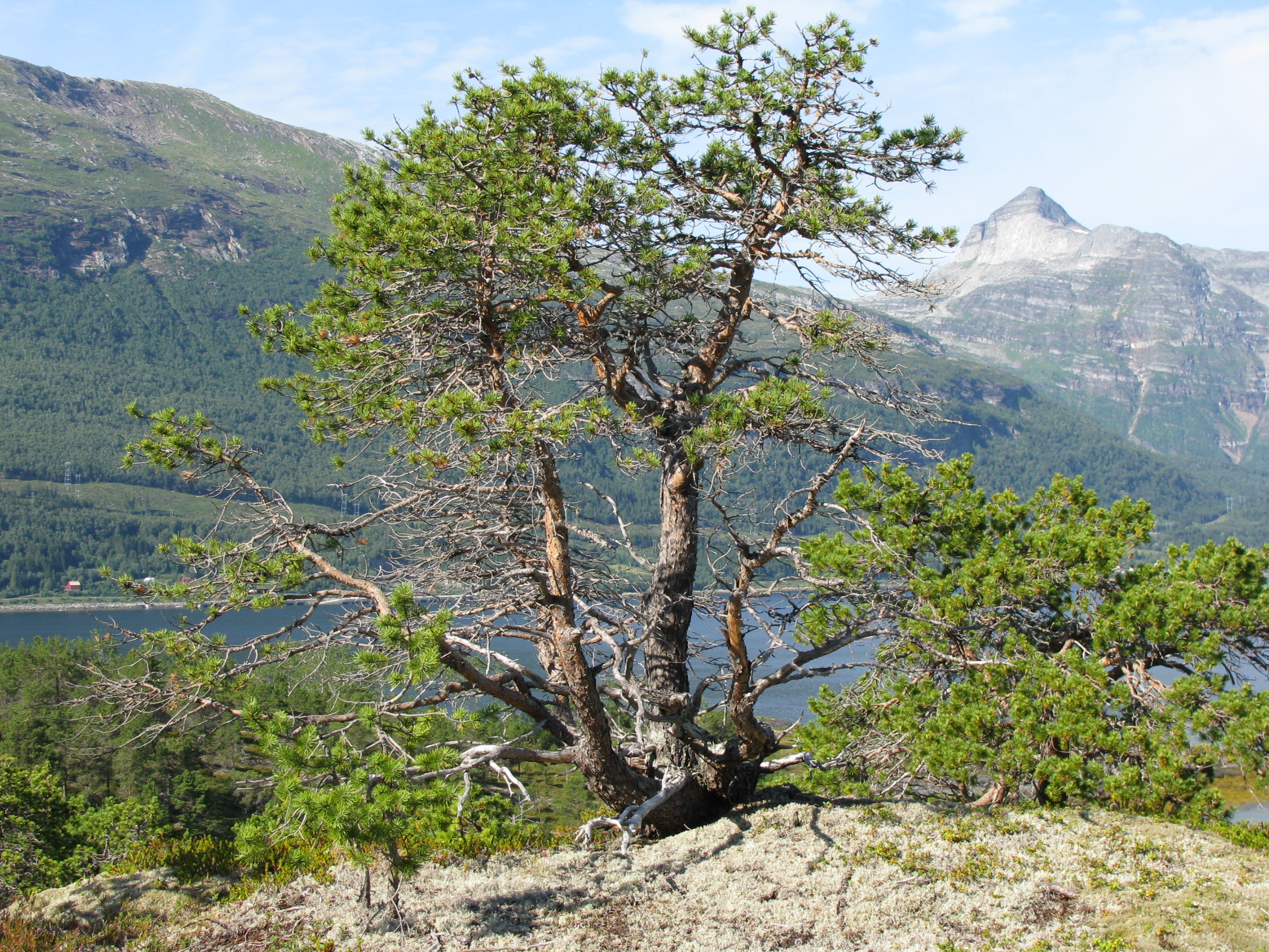 Stunted Scots Pine growing on very thin soil on the bedrock near Ofotfjord, Nordland, Norway, 200 km north of the Arctic cirlcle. Nearby are larger pines growing on deeper soil. Pine is the most drought-tolerant tree in Norway. View towards north. The mountains in the background reach up to 1090 m (4000 ft) above sea level.